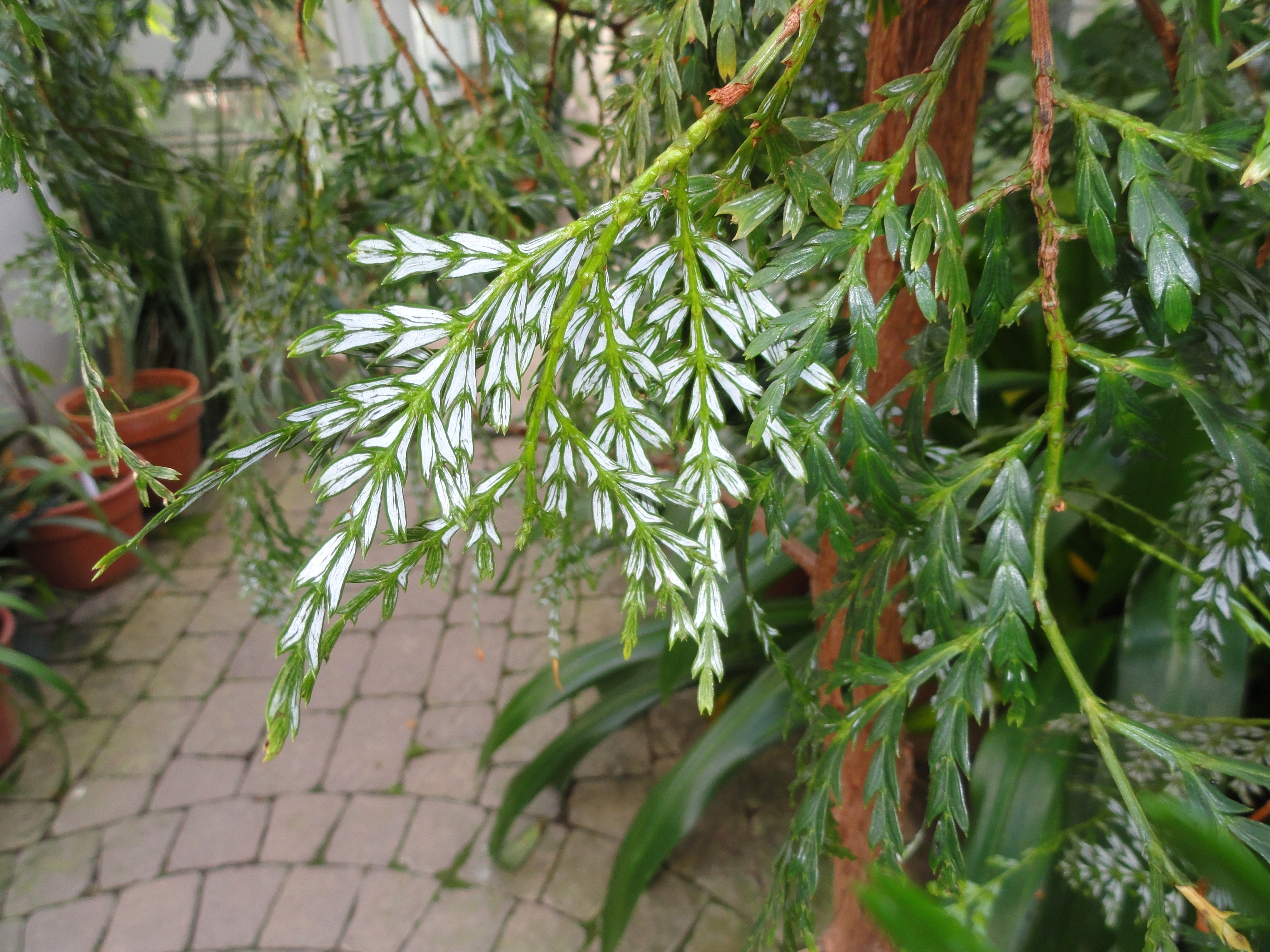 Botanical specimen in the Lyman Plant House, Smith College, Northampton, Massachusetts, USA.